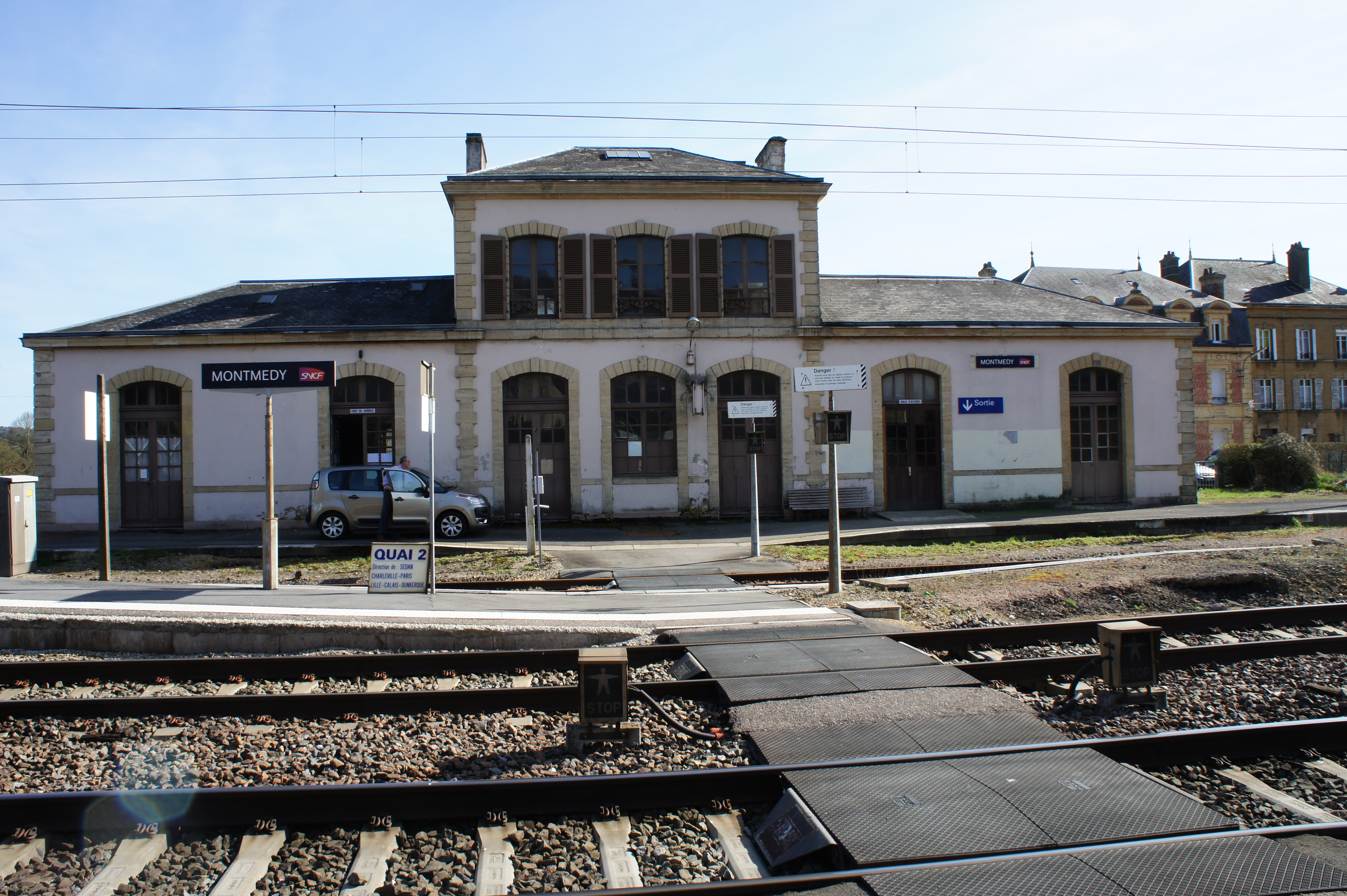 Railway Station Montmédy (France)